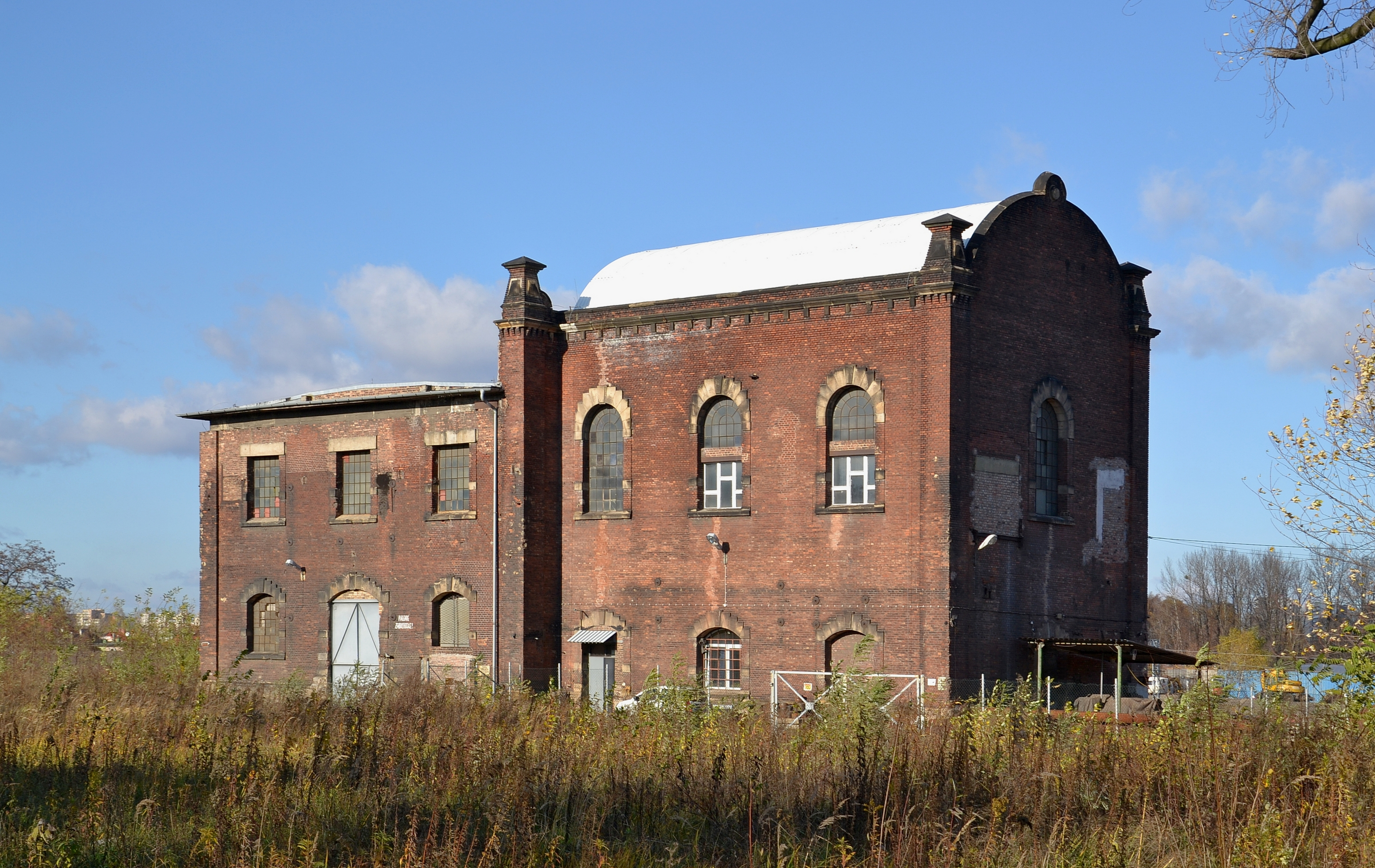 Building of the destroyed coal mine Kleofas in Katowice (Kattowitz), Upper Silesia